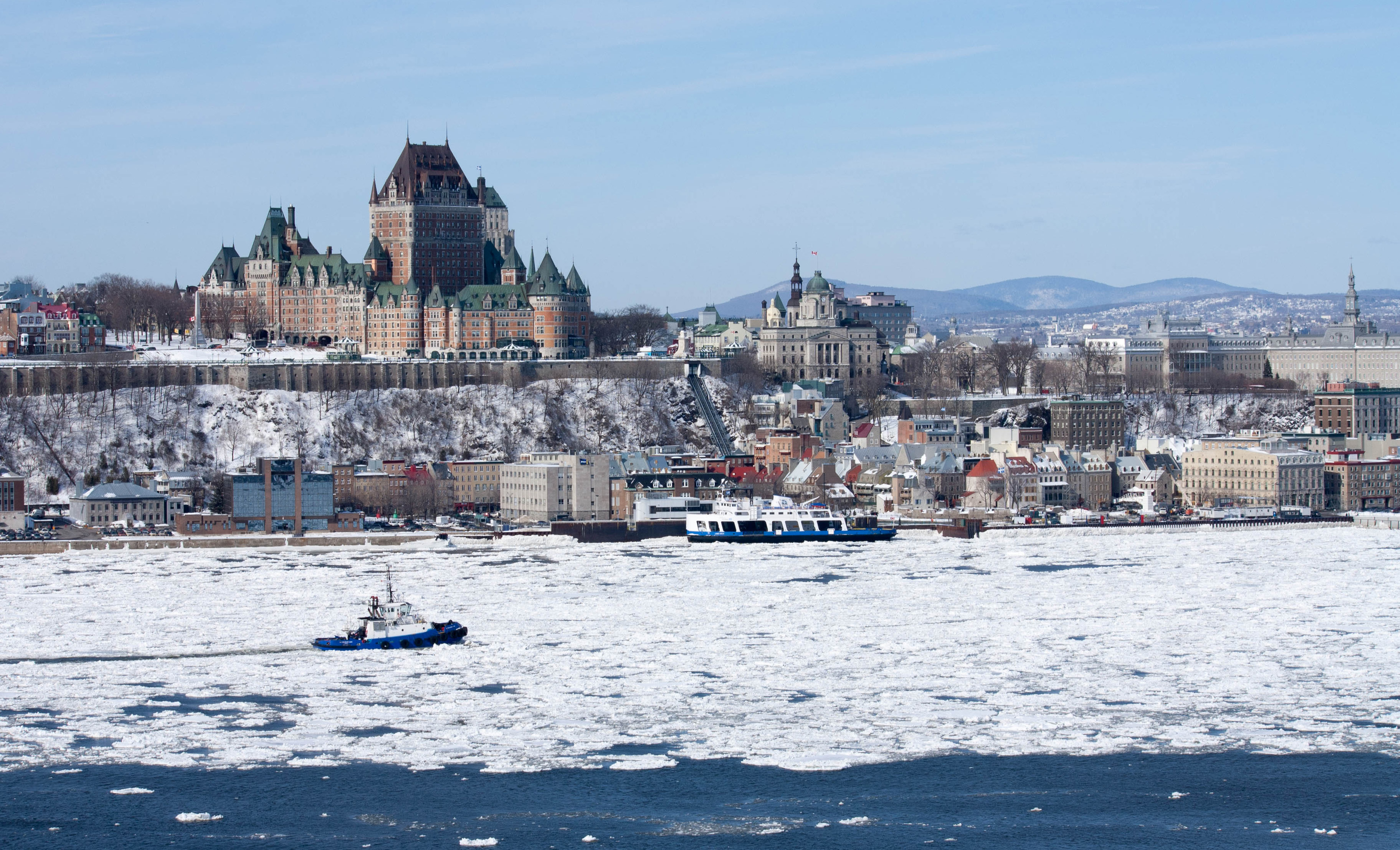 Québec City seen from Lévis, Canada